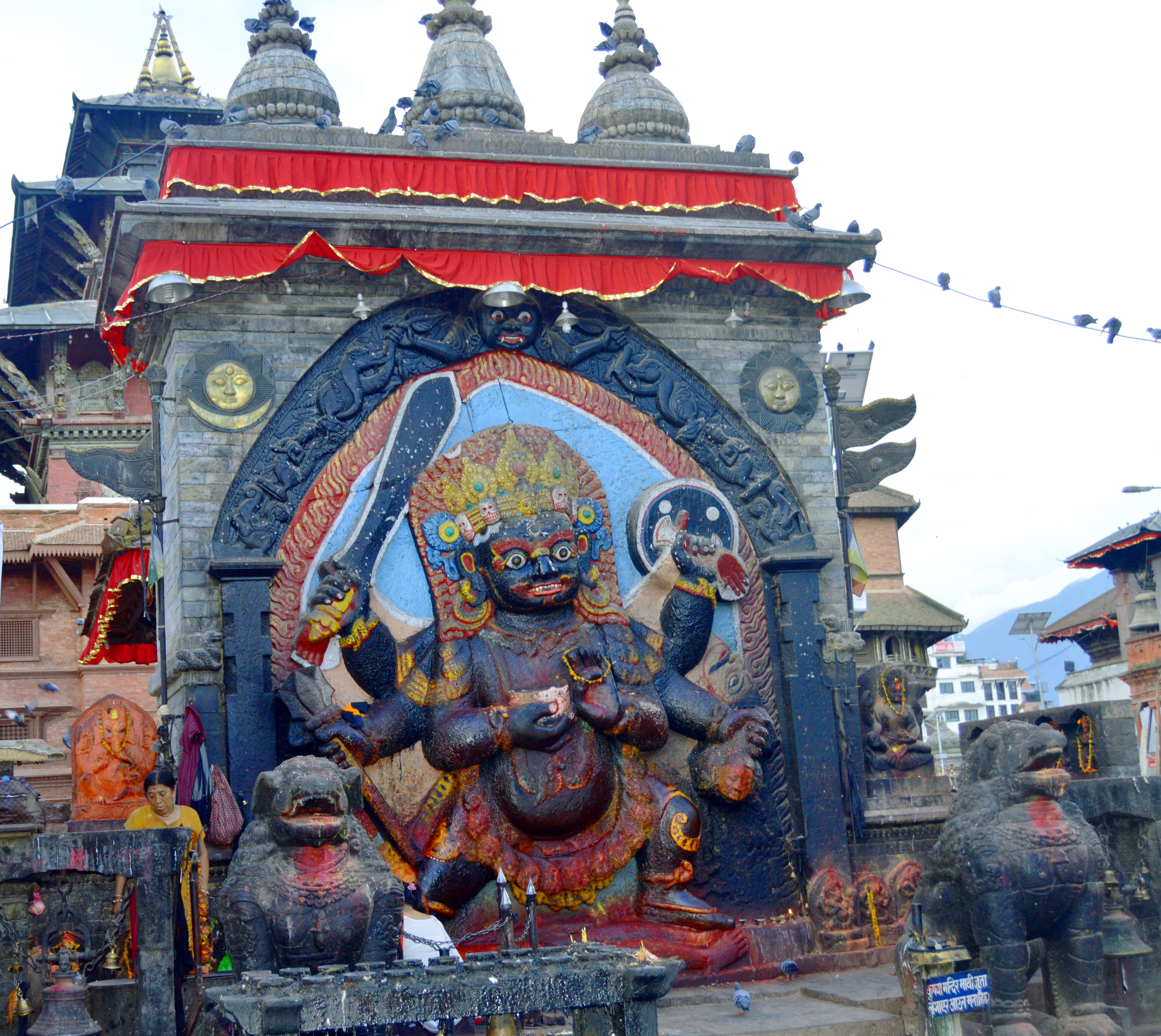 Kalbhairav,this huge stone image of Bhairav represents deity Shiva in his destructive manifestation. It is undated,but was set in its present location by King Pratap Malla after it was found in the field north of the city. This is the most famous Bhairav and it was used by government as a place for people to swear the truth.